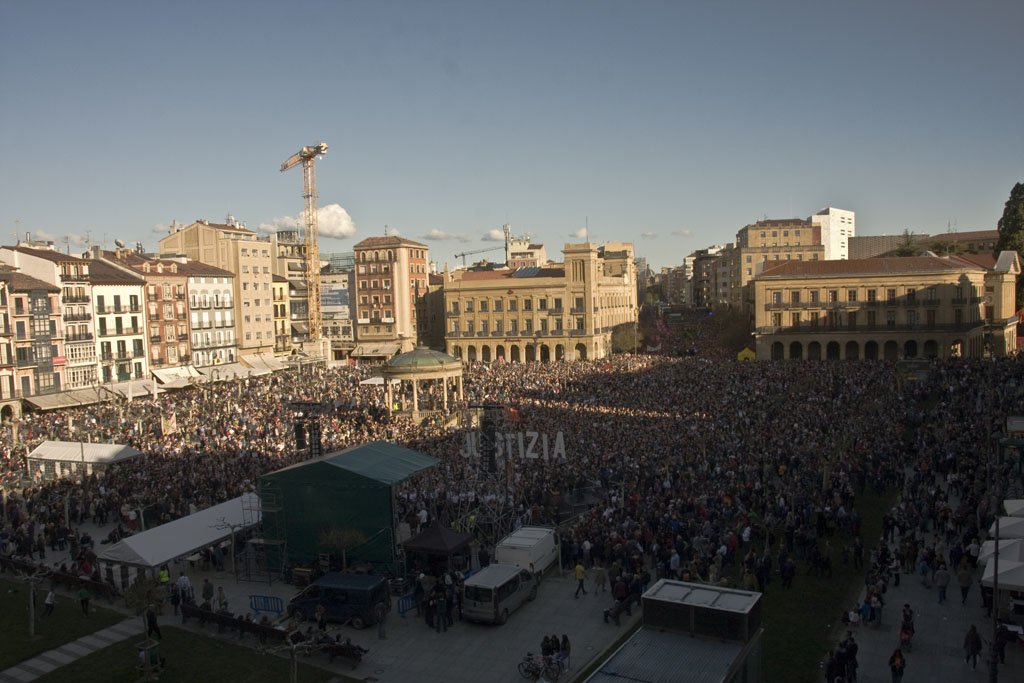 Mass demonstration in support of the youth prosecuted in the Altsasu incident